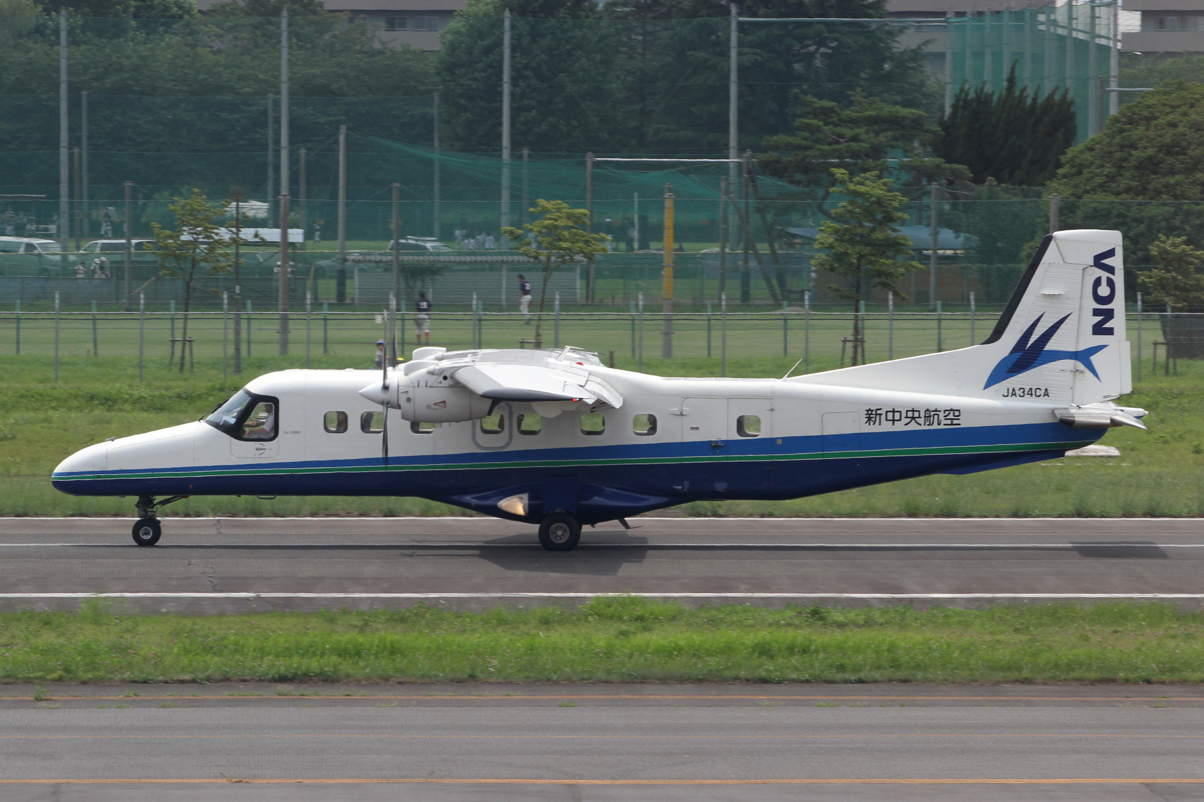 Chofu Airport, Fairchild Dornier 228-212, c/n:8300, New Central Air Service